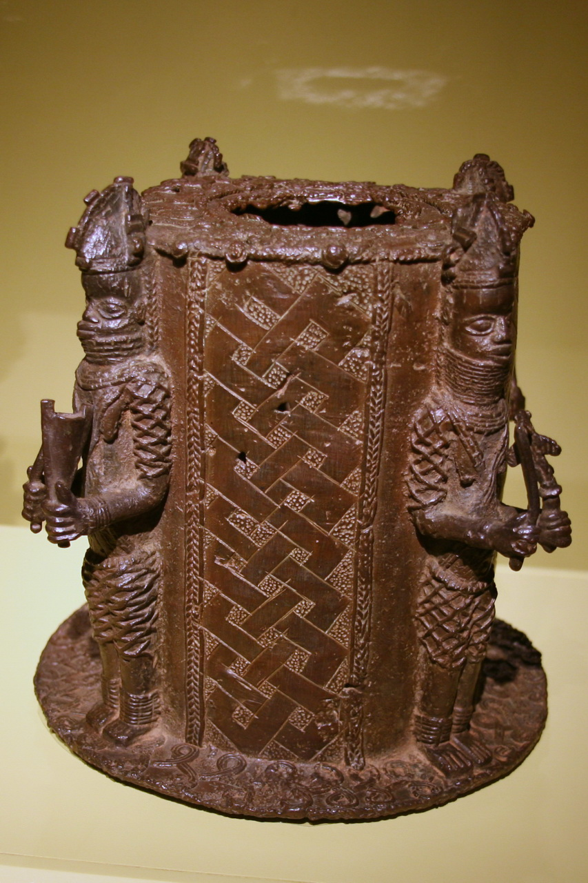 Altar stand, Edo peoples, Benin Kingdom, Nigeria, 18th-19th century, Copper alloy This object possibly supported an ivory tusk on an altar. The depiction of four female figures holding gongs suggests an association with an iyoba, or queen mother. Two figures strike bird gongs, which symbolize the infallibility of the oba. (National Museum of African Art)